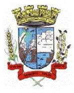 Coat of arms of the city of XXXXXXXXX, Rio Grande do Sul, Brazil.